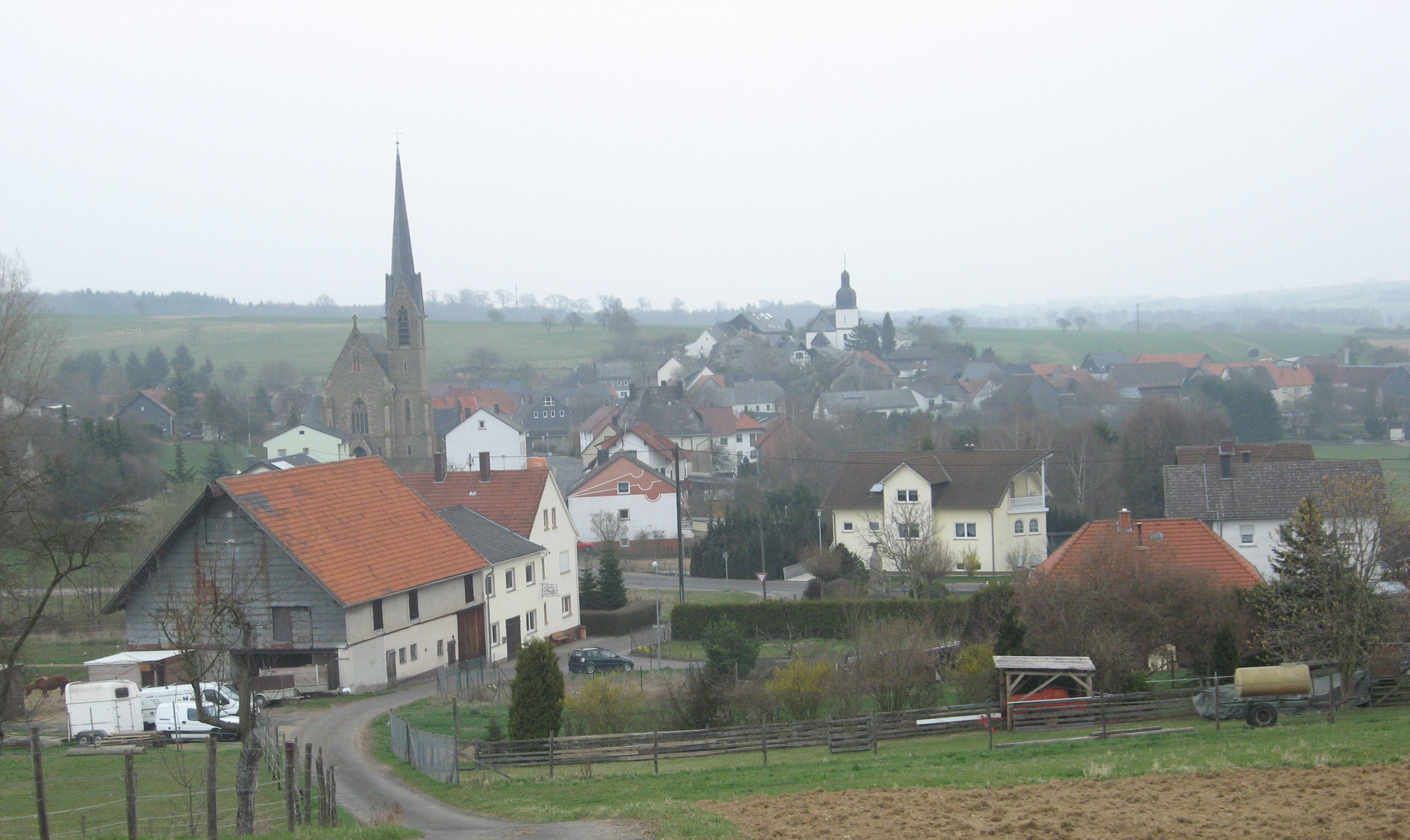 Seesbach, Hunsrück landscape, Germany.